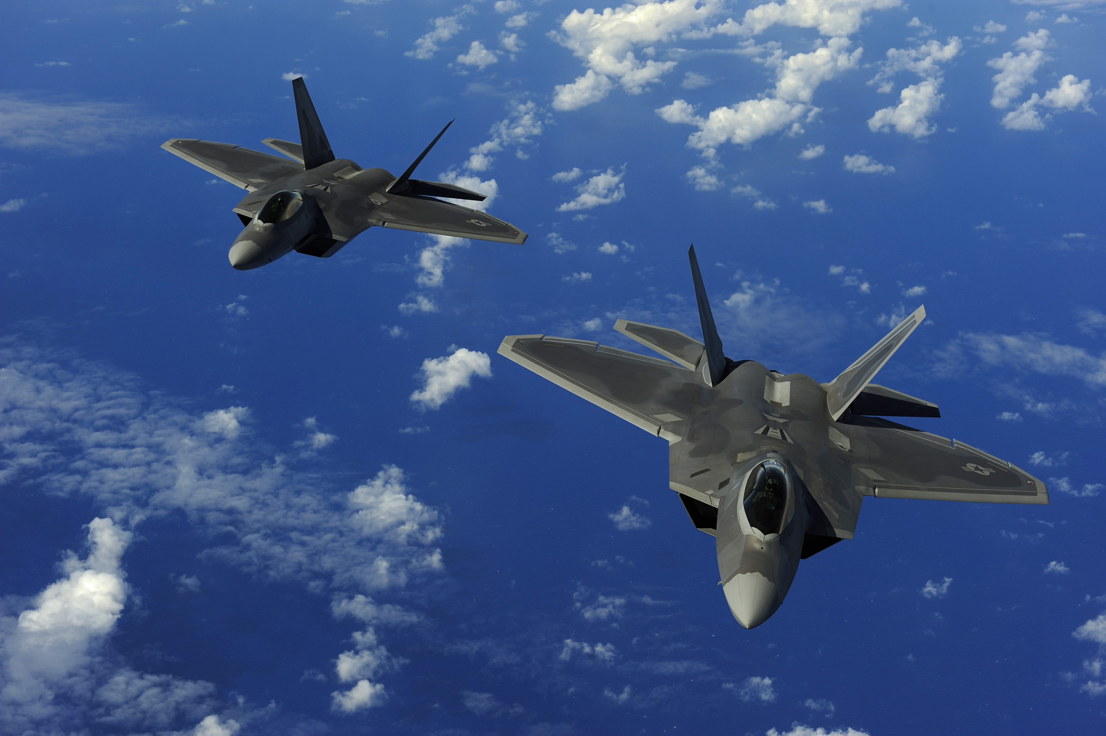 U.S. Air Force F-22 Raptors assigned to the 90th Fighter Squadron, Elmendorf Air Force Base, Alaska, fly near Guam, Feb. 16, 2010. (U.S. Air Force photo by Staff Sgt. Jacob N. Bailey)